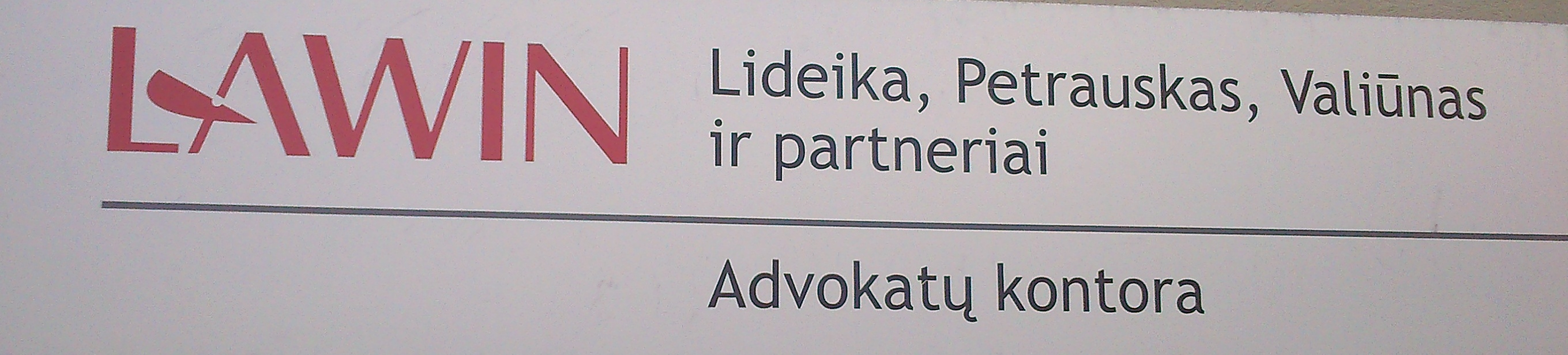 Lawin